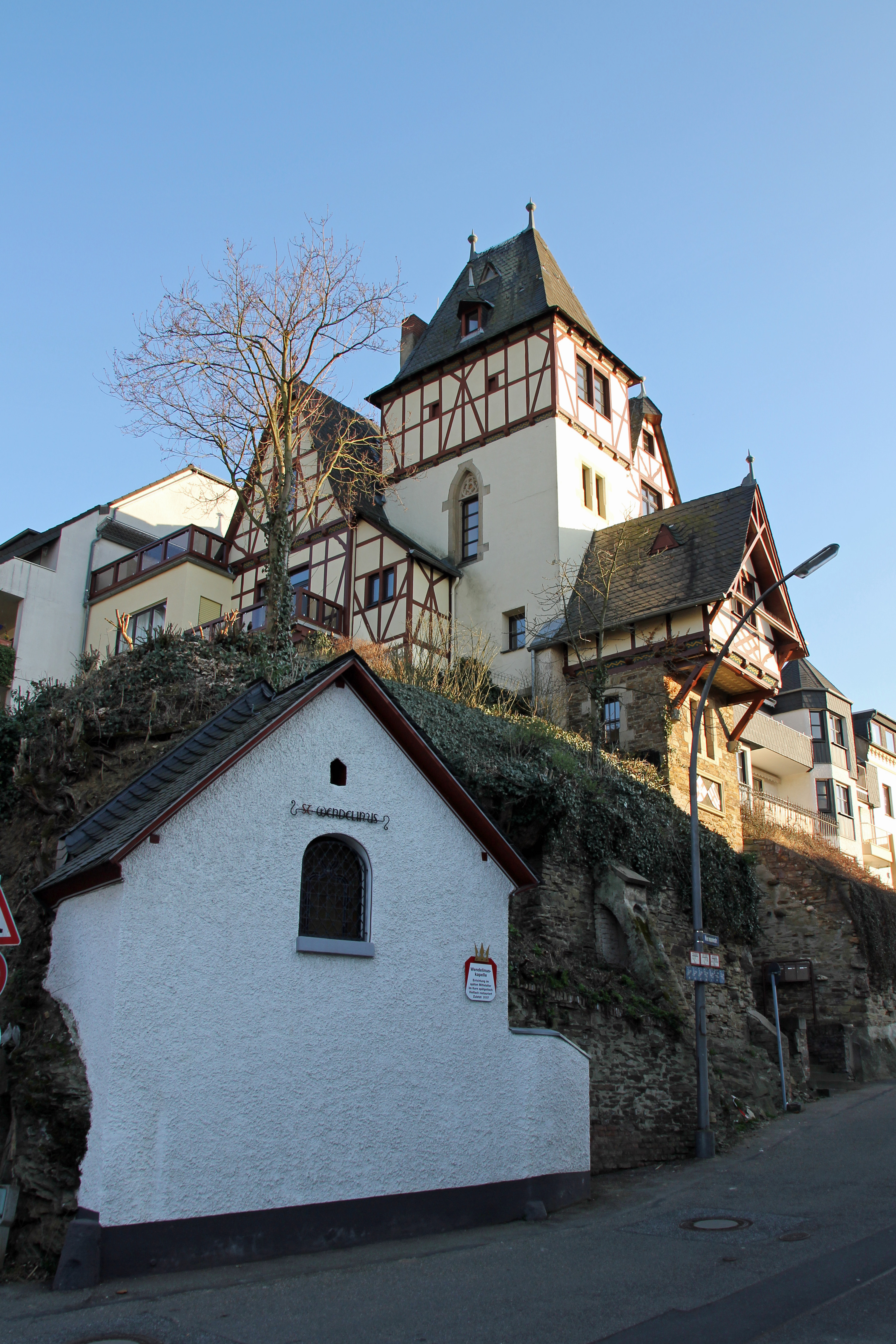 Wendelinuskapelle and Burg Cuno in Koblenz